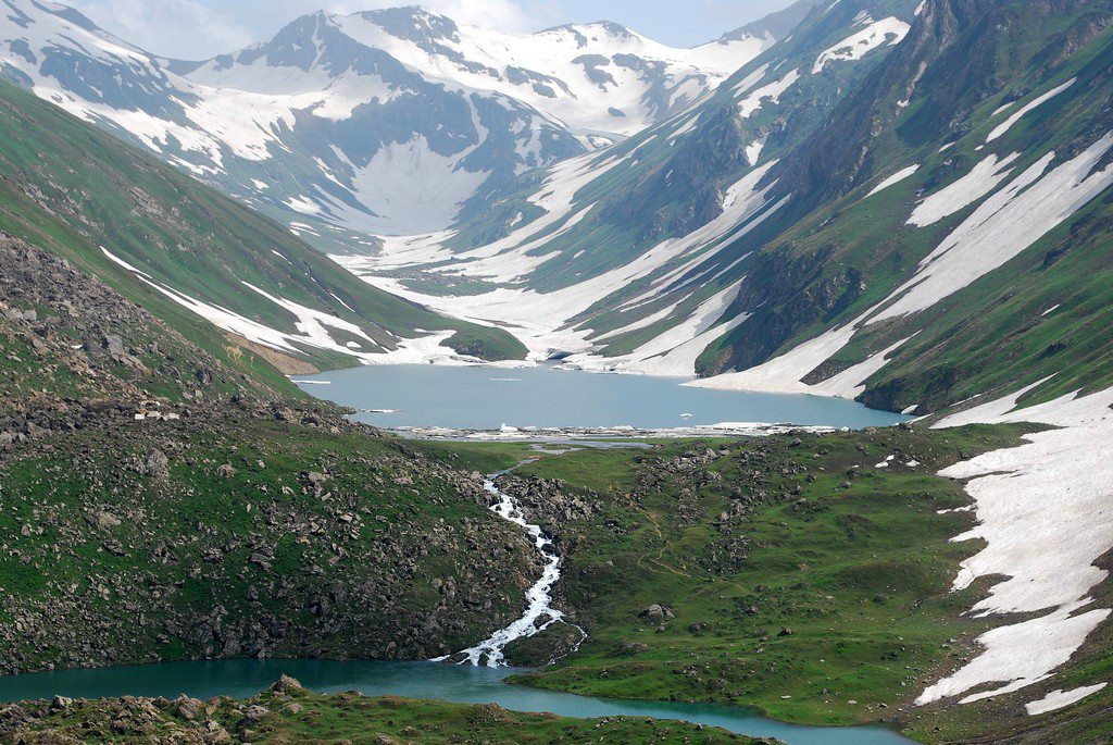 Saral lake located in the upper reaches of Neelum valley, AJK